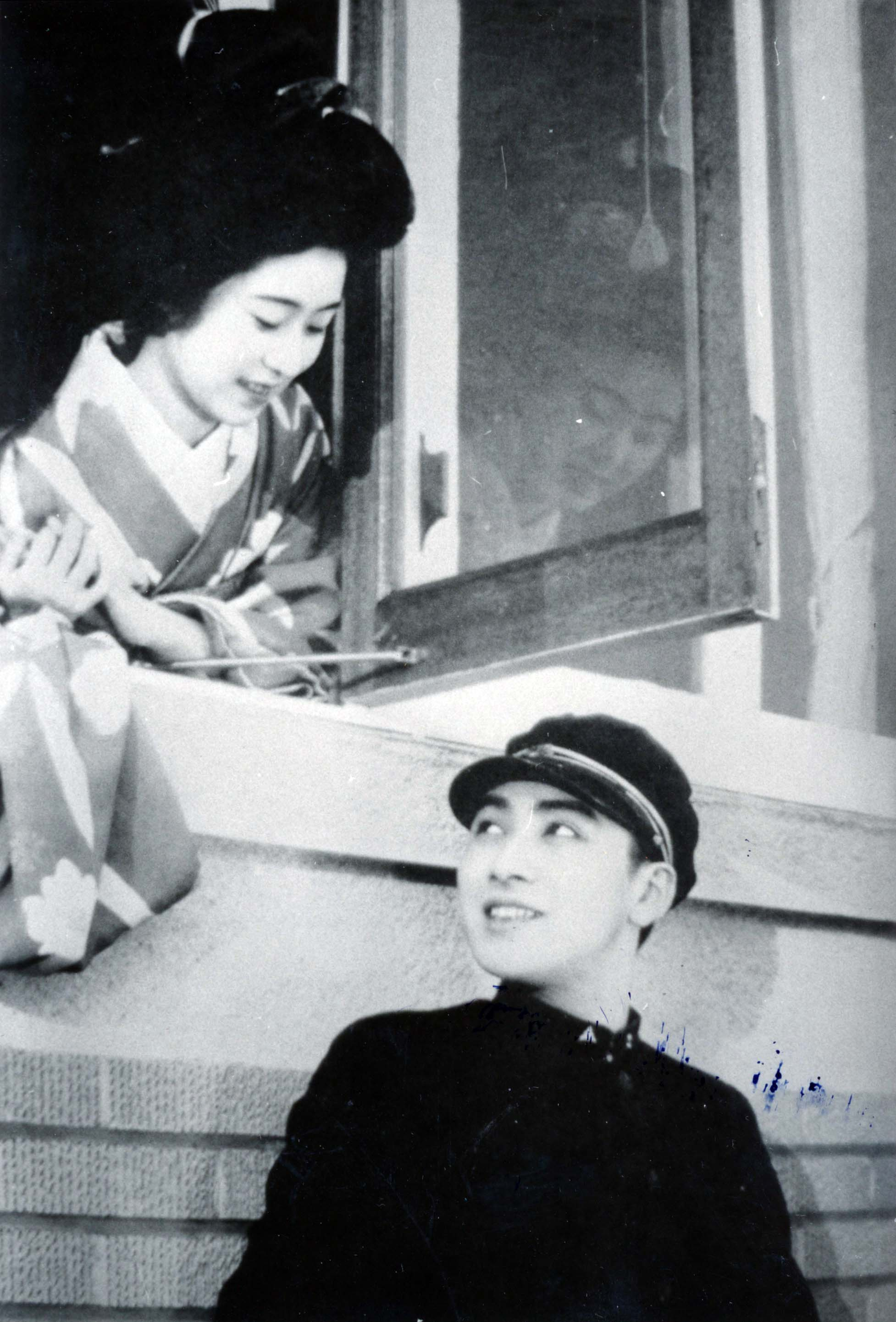 Kinuyo Tanaka and Kazuo Hasegawa in Konjiki yasha (金色夜叉) directed by Hōtei Nomura - 1932